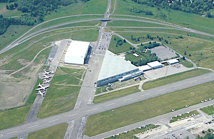 I took this aerial photo of the Canada Aviation Museum on June 5th, 2005.